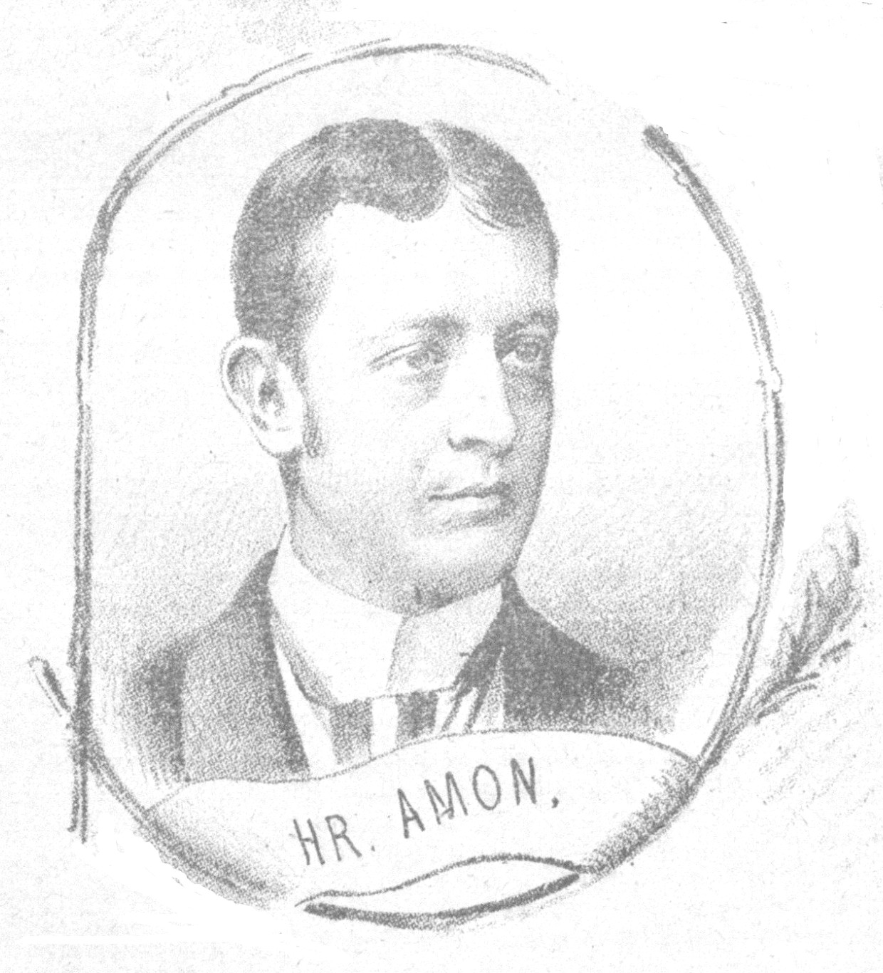 Portrait of Anton Amon (1862-1931), Austrian actor - comic singer. Based on a photograph taken by Rudolf Krziwanek (see description